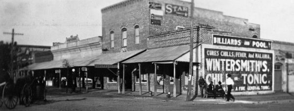 Business District - High Springs, Florida - 1916